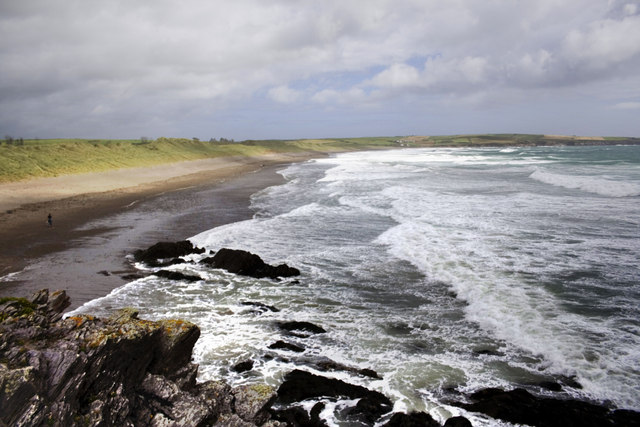 Castlefreke Beautiful Castlefreke on a blustery Autumn day. The beach is popular with surfers, although it can be dangerous with rips and rocks.